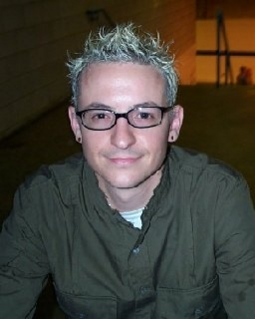 Chidey